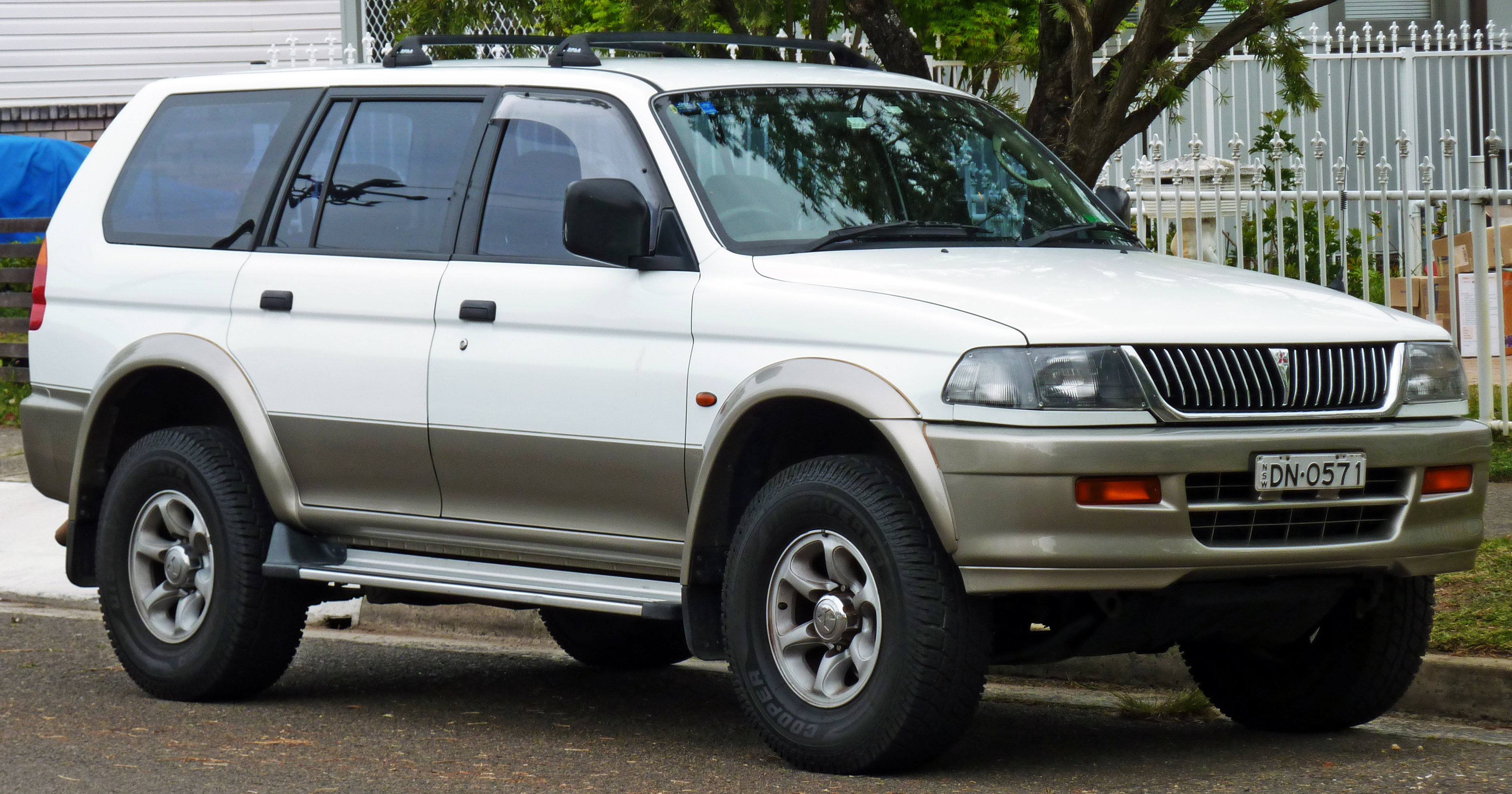 1999 Mitsubishi Challenger (PA) wagon. Photographed in Sandringham, New South Wales, Australia.